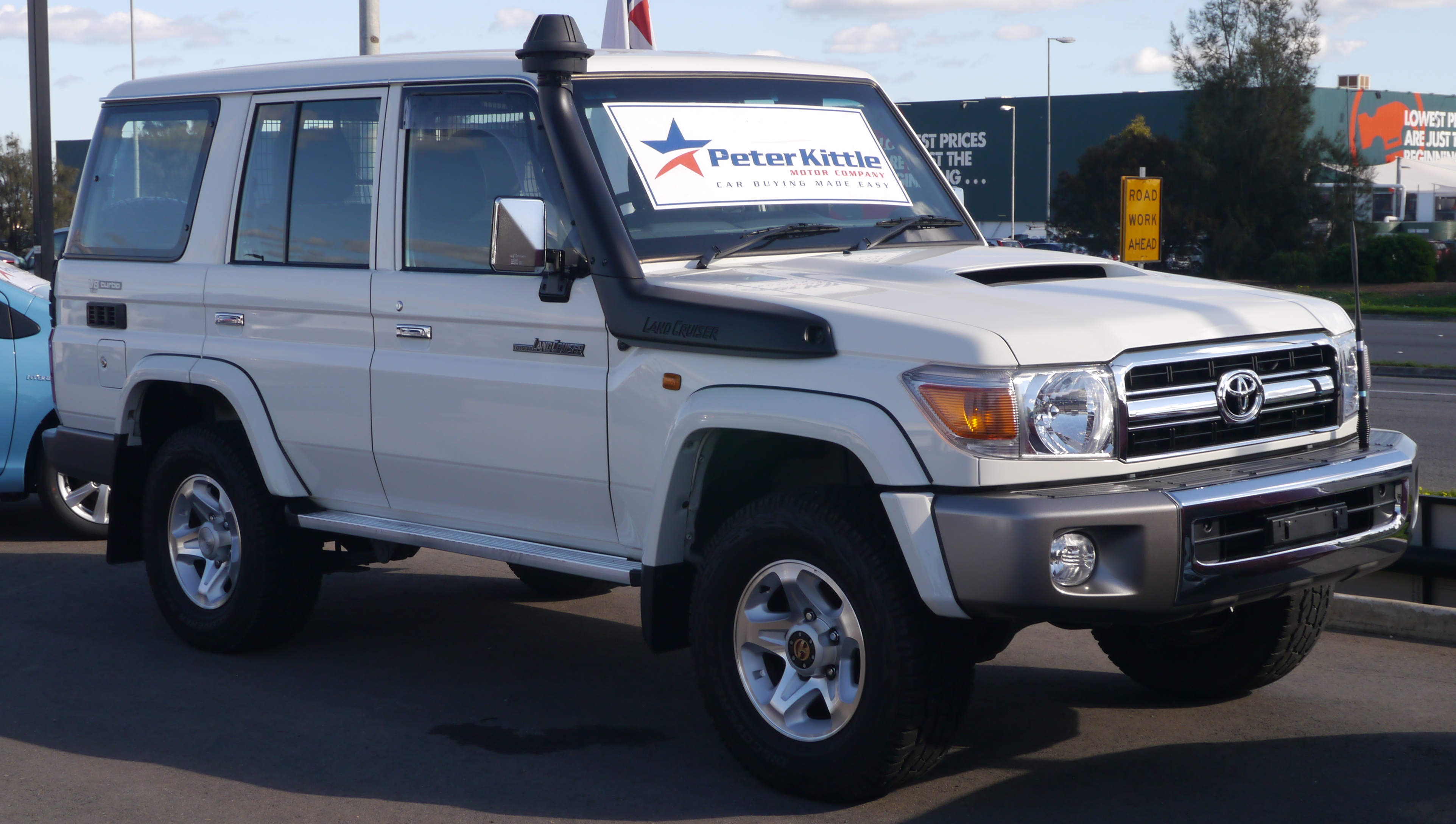 2015 Toyota Landcuriser GXL - 70 Series